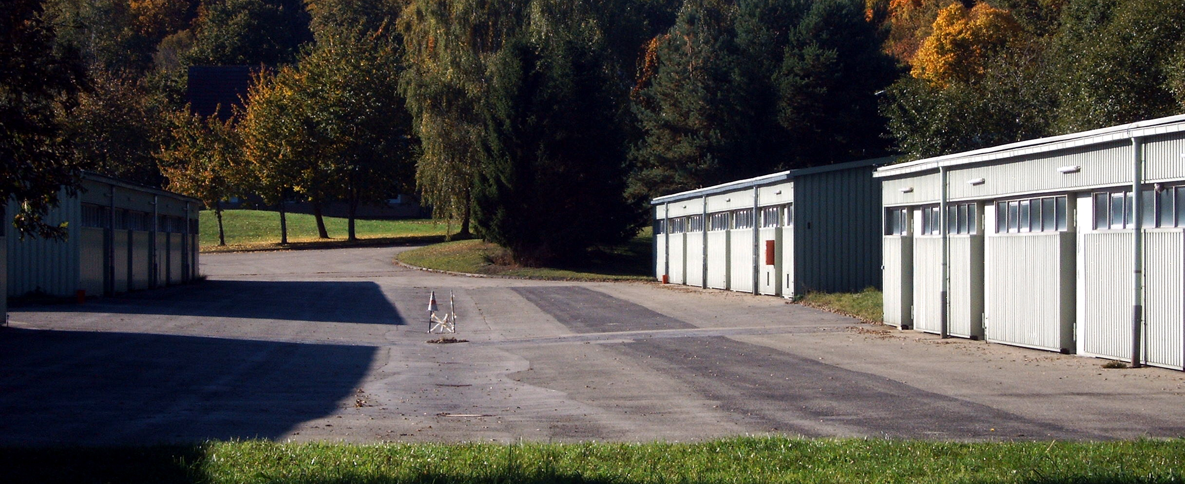 Sheds of Malmsheim Airfield